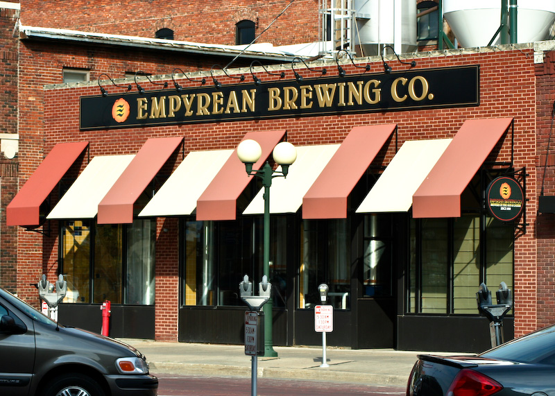 Brew house, Lincoln, Nebraska